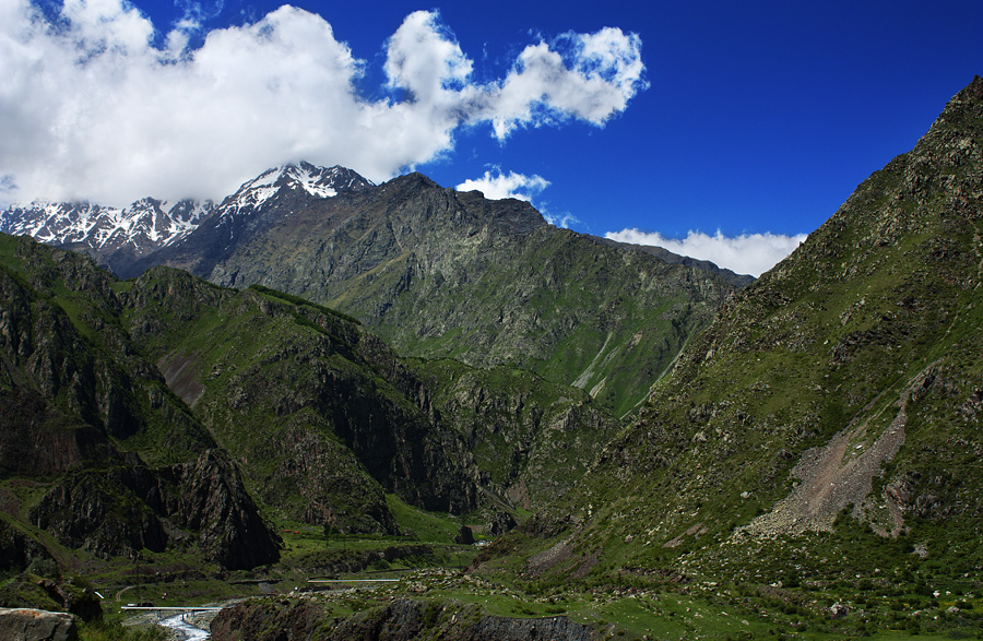 Khevi, Georgia — Dariali Gorge